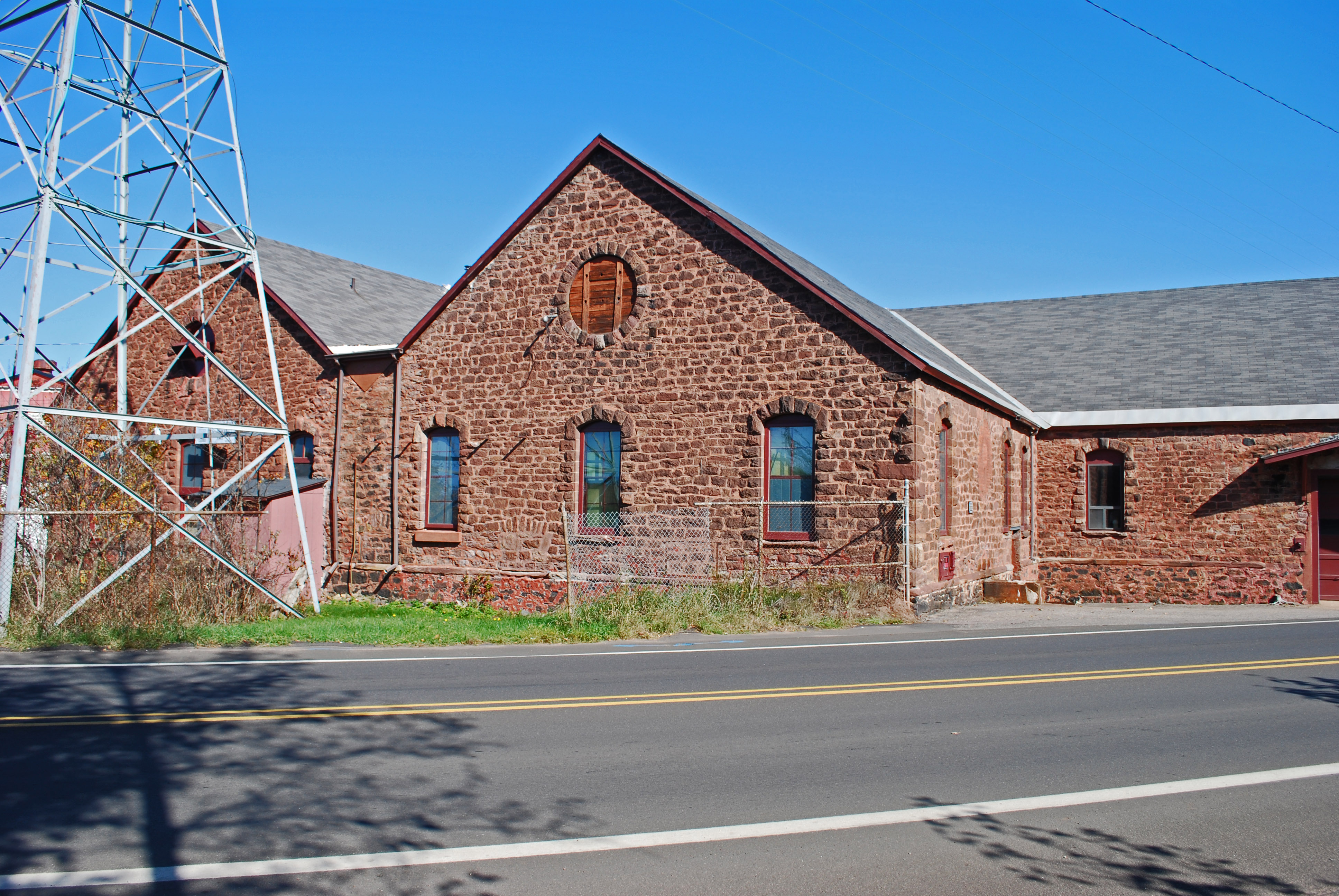 Clevelan Mine Engine House no 3, Ishpeming MI